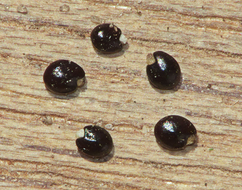 Claytonia perfoliata seeds, length 1-1.5 mm